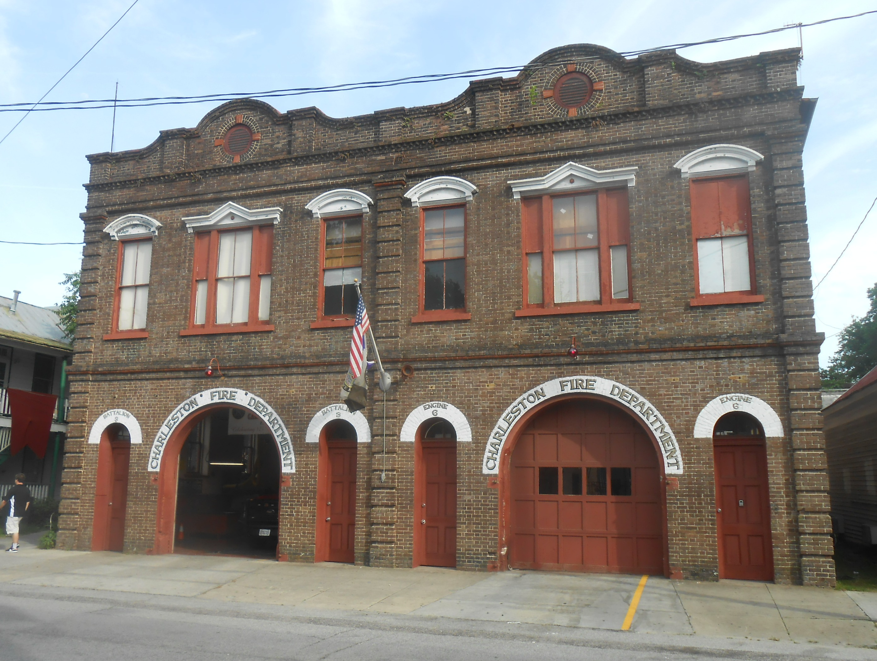 5 Cannon Street, Charleston, South Carolina